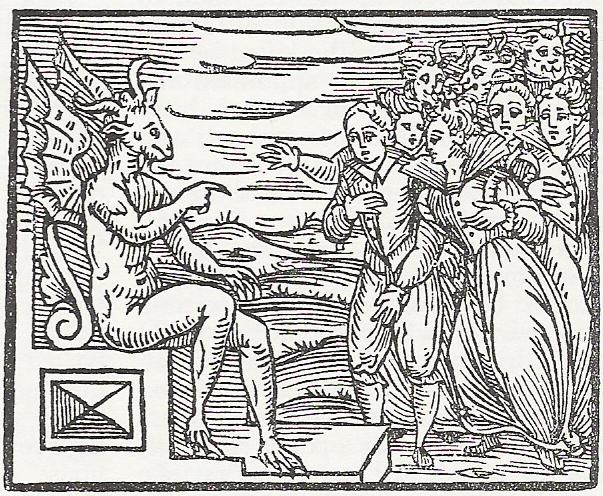 Wood Engraving 8 from the Compendium Maleficarum